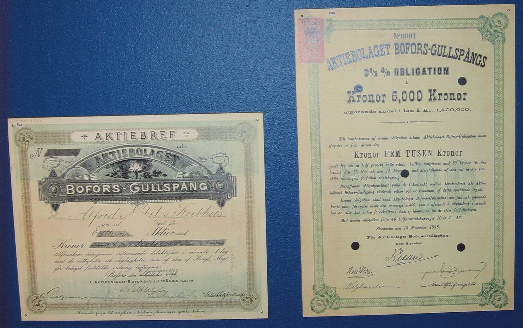 Copies of stocks and bonds from Bofors-Gullspång Aktiebolag, on display in Bofors industrial museum at Björkborn, Karlskoga. Kopior av aktiebrev och obligation från Bofors-Gullspång Aktiebolag, utställda på Bofors industrimuseum vid Björkborn, Karlskoga.